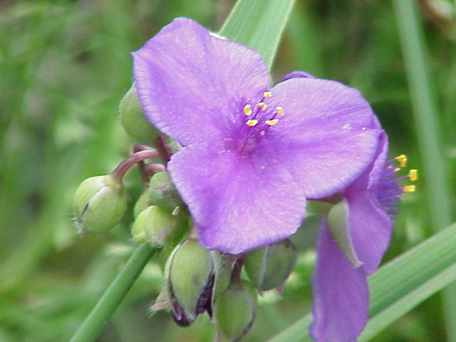 Species: Tradescantia virginiana Family: Commelinaceae Image No. 1